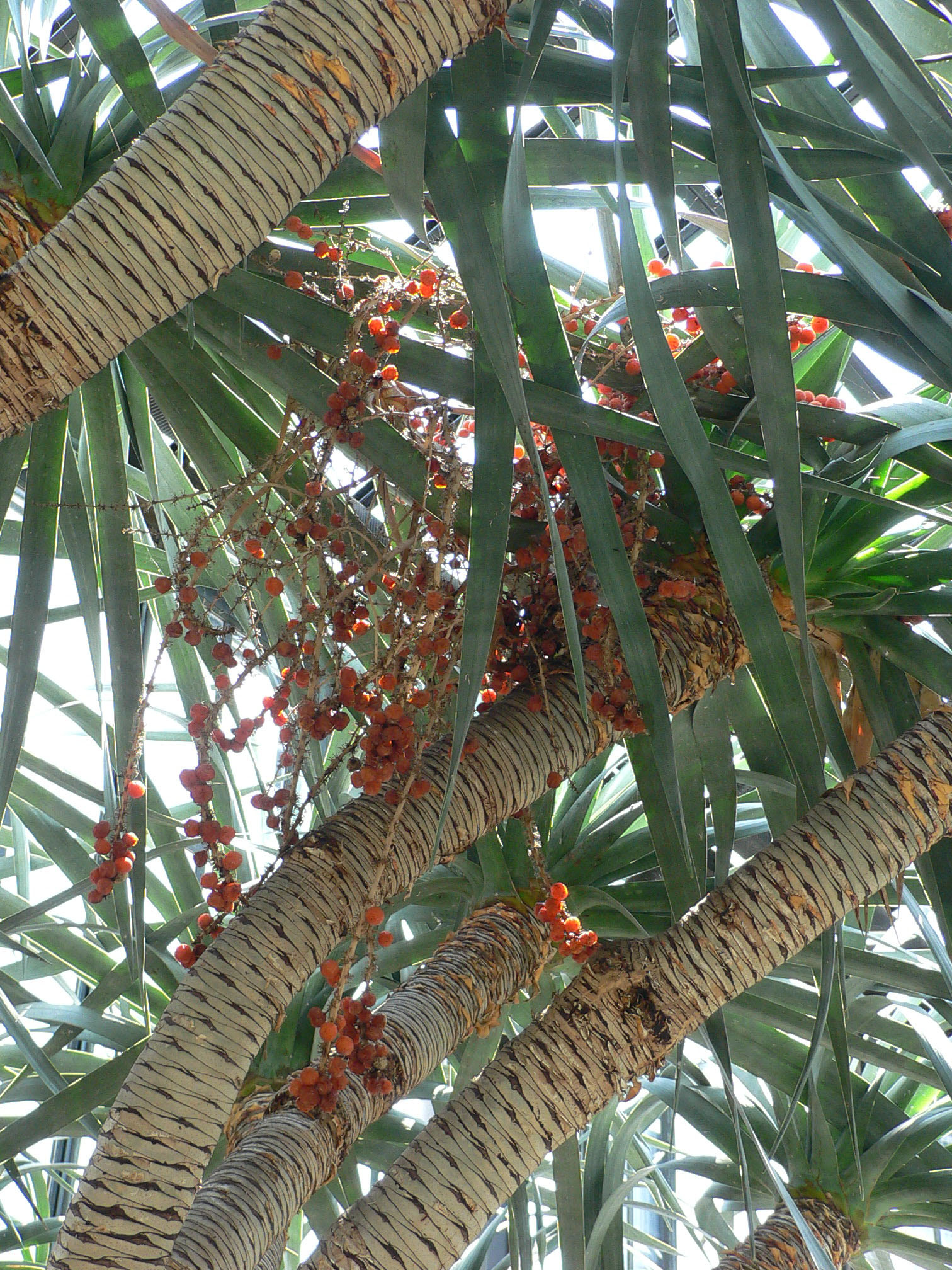 Dracaena draco. Pictures from Longwood Gardens taken by Raul654 On May 1, 2005.